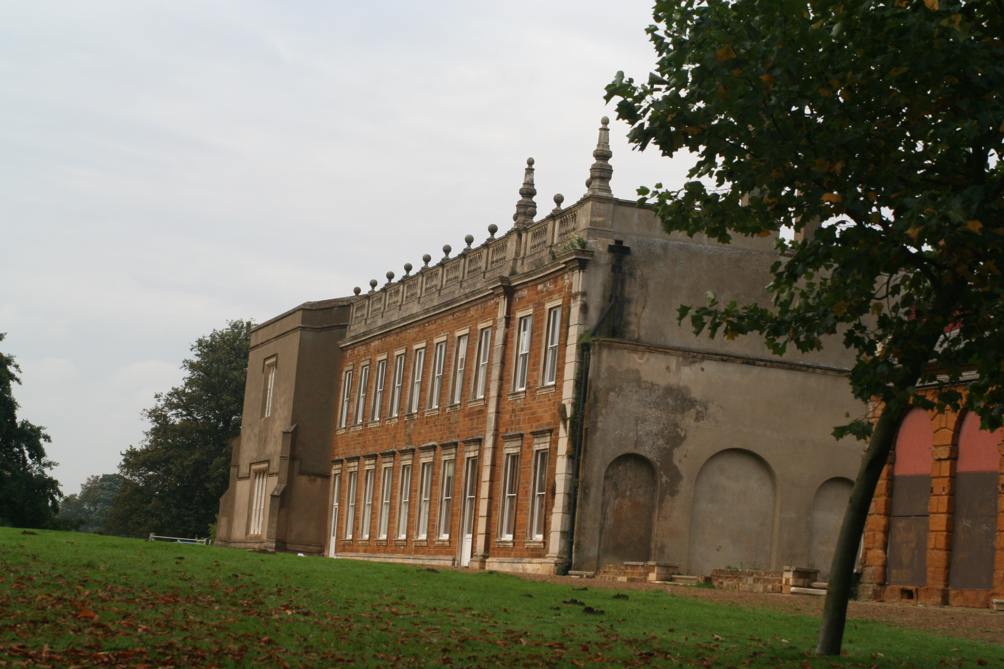 Delapre Abbey taken 18 October 2005 (c) R Neil Marshman